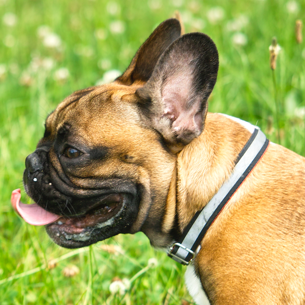 Cannabis French Bulldog. Sigma SD15 + Sigma 70-200 mm f/2.8 II EX APO DG Macro HSM